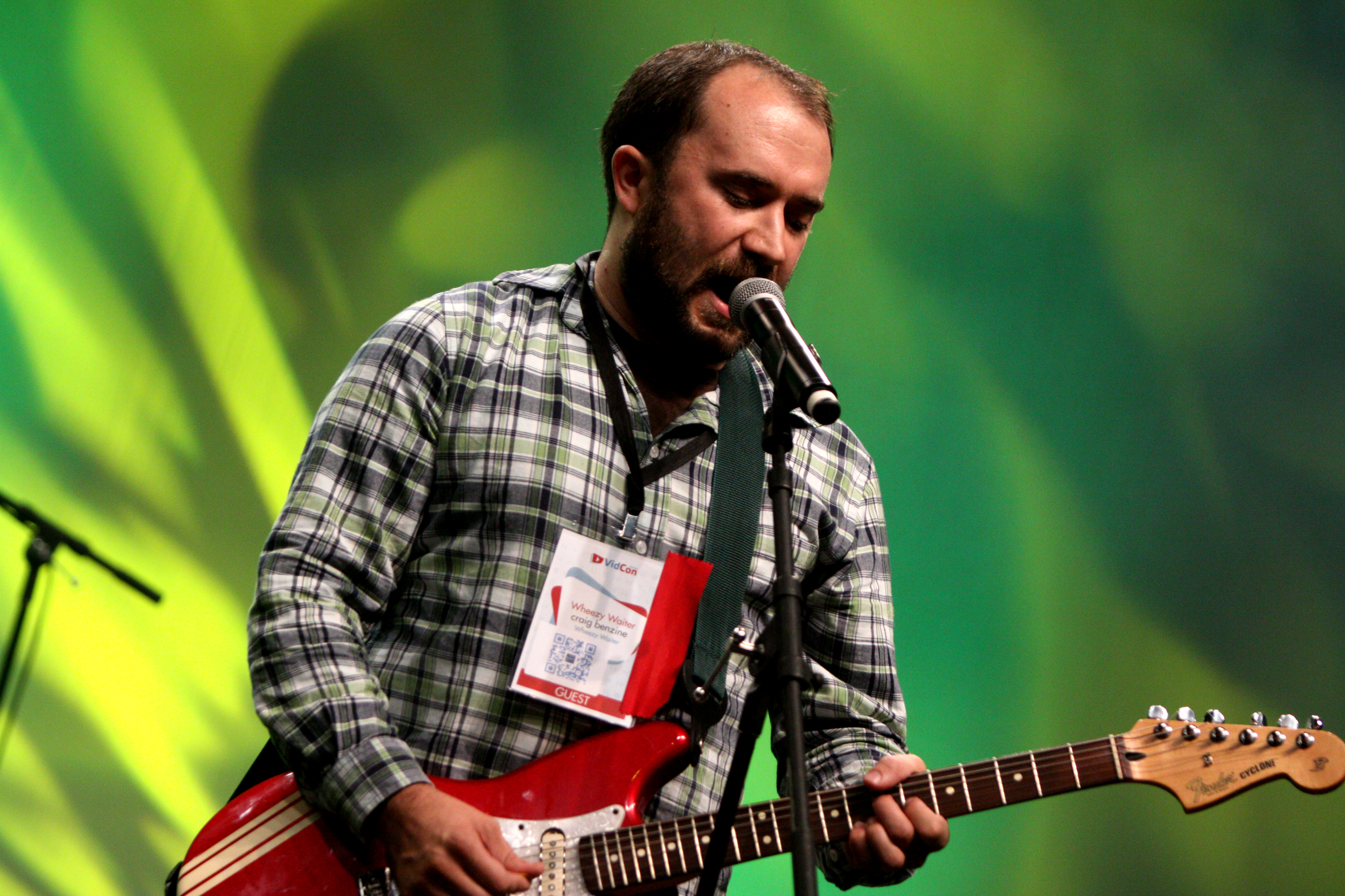 Craig Benzine performing at VidCon 2012 at the Anaheim Convention Center in Anaheim, California.